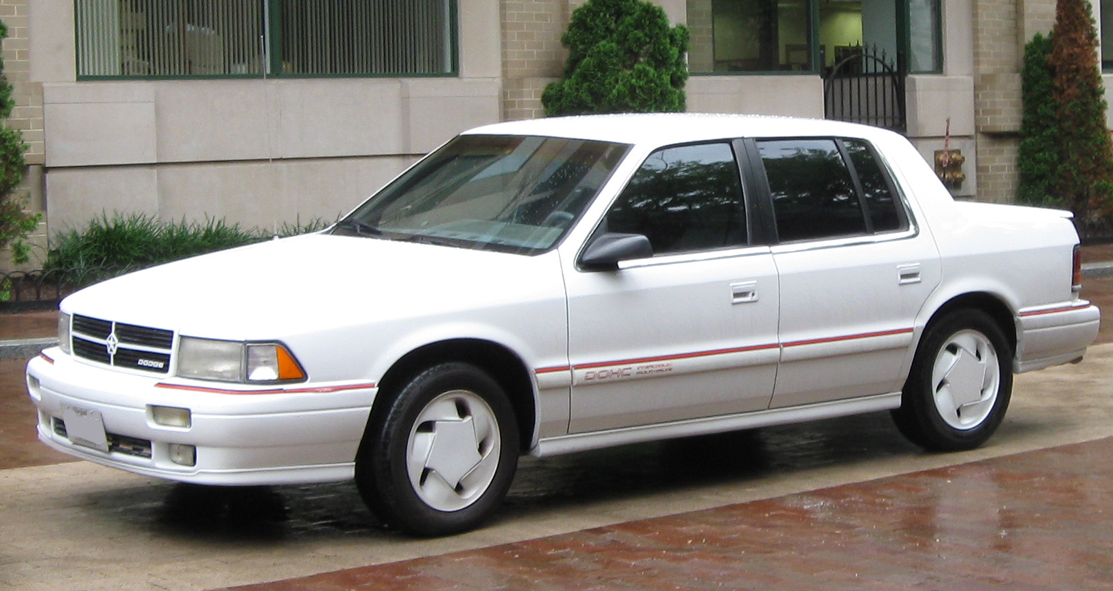 Dodge Spirit photographed in Washington, D.C., USA.